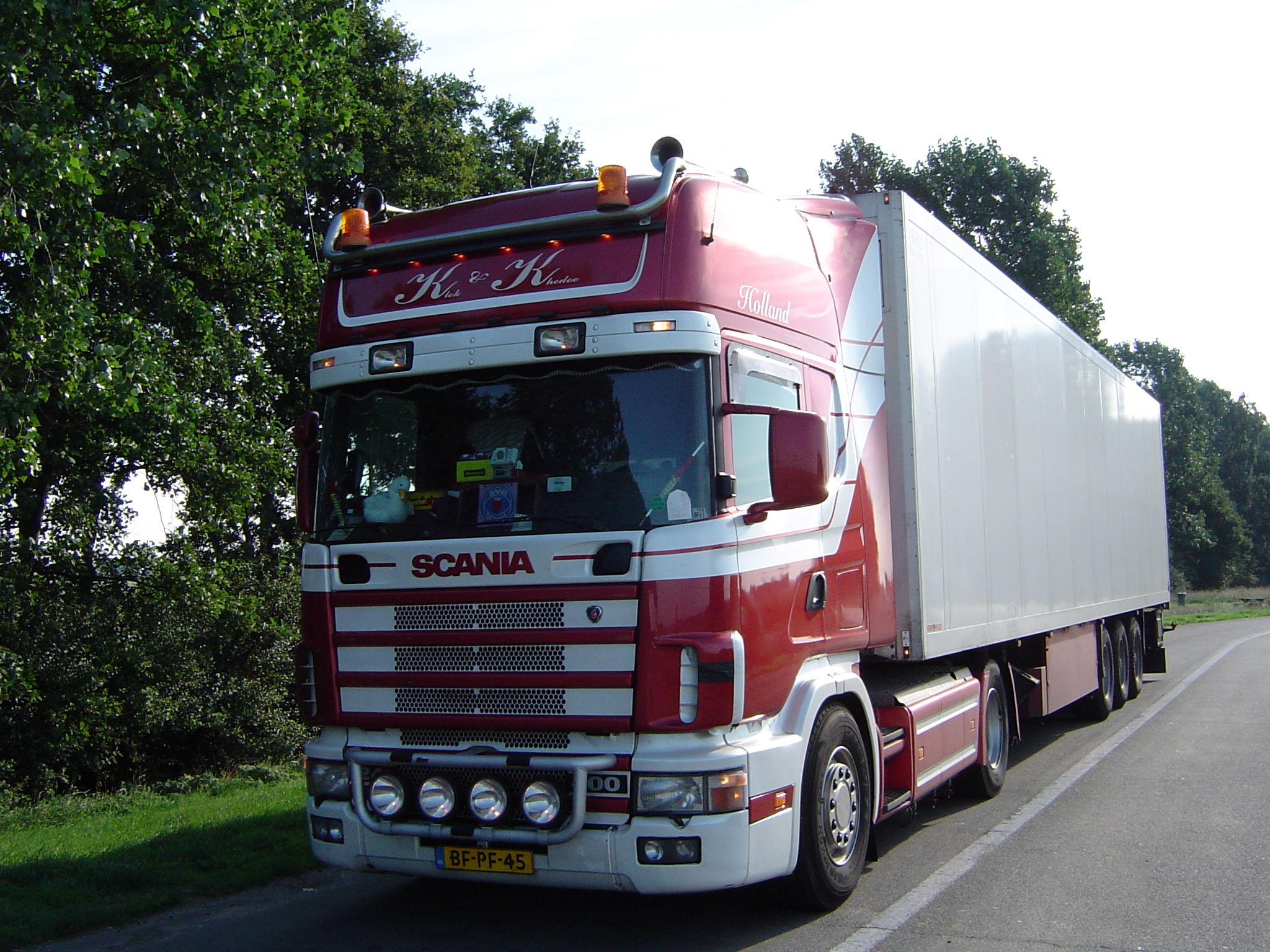 Koel trailer. Scania 124? ?00 truck.